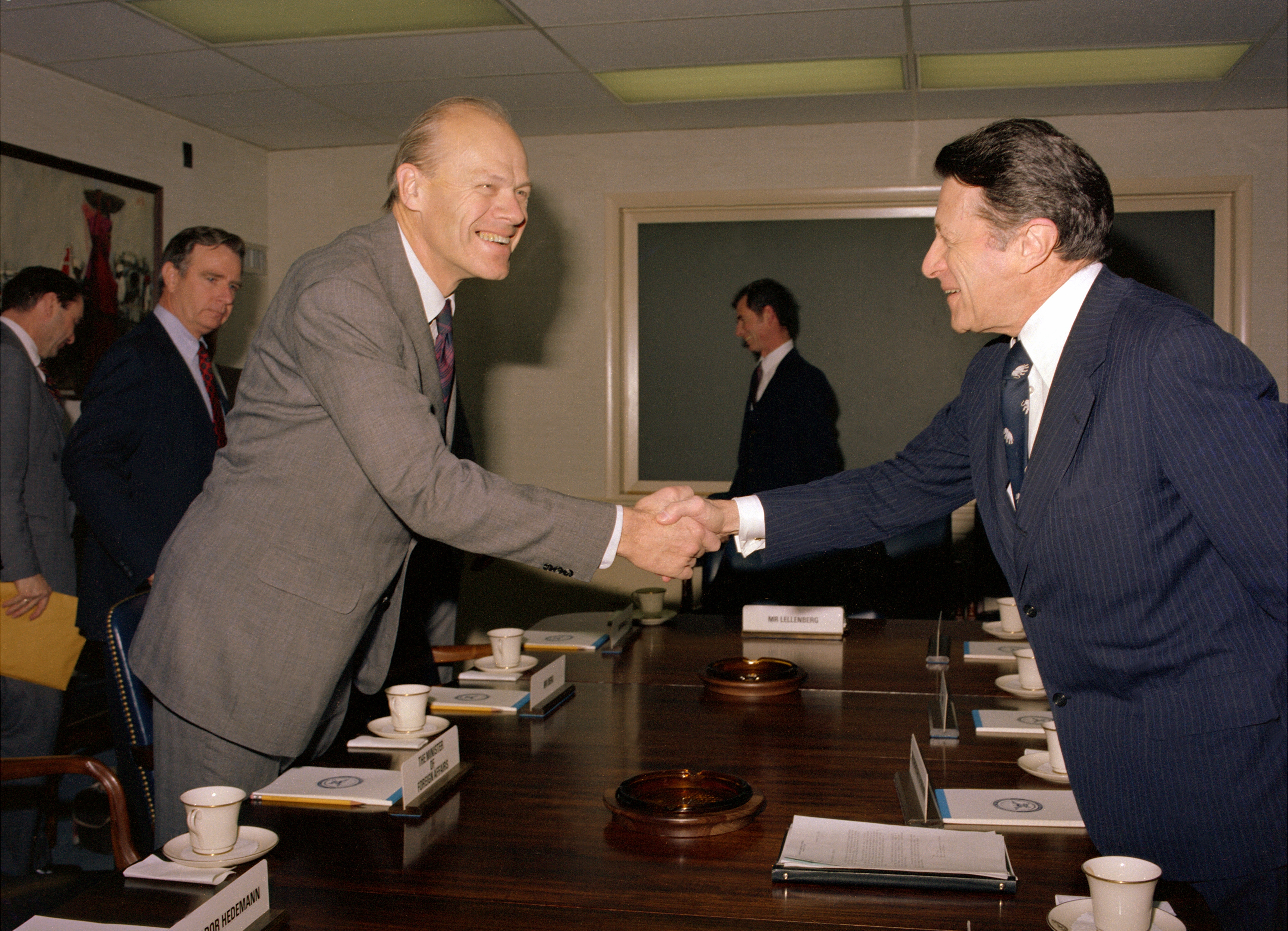 Secretary of Defense Caspar W. Weinberger greets Foreign Minister of Norway Svenn Stray in a Pentagon briefing room, Room 3E912.